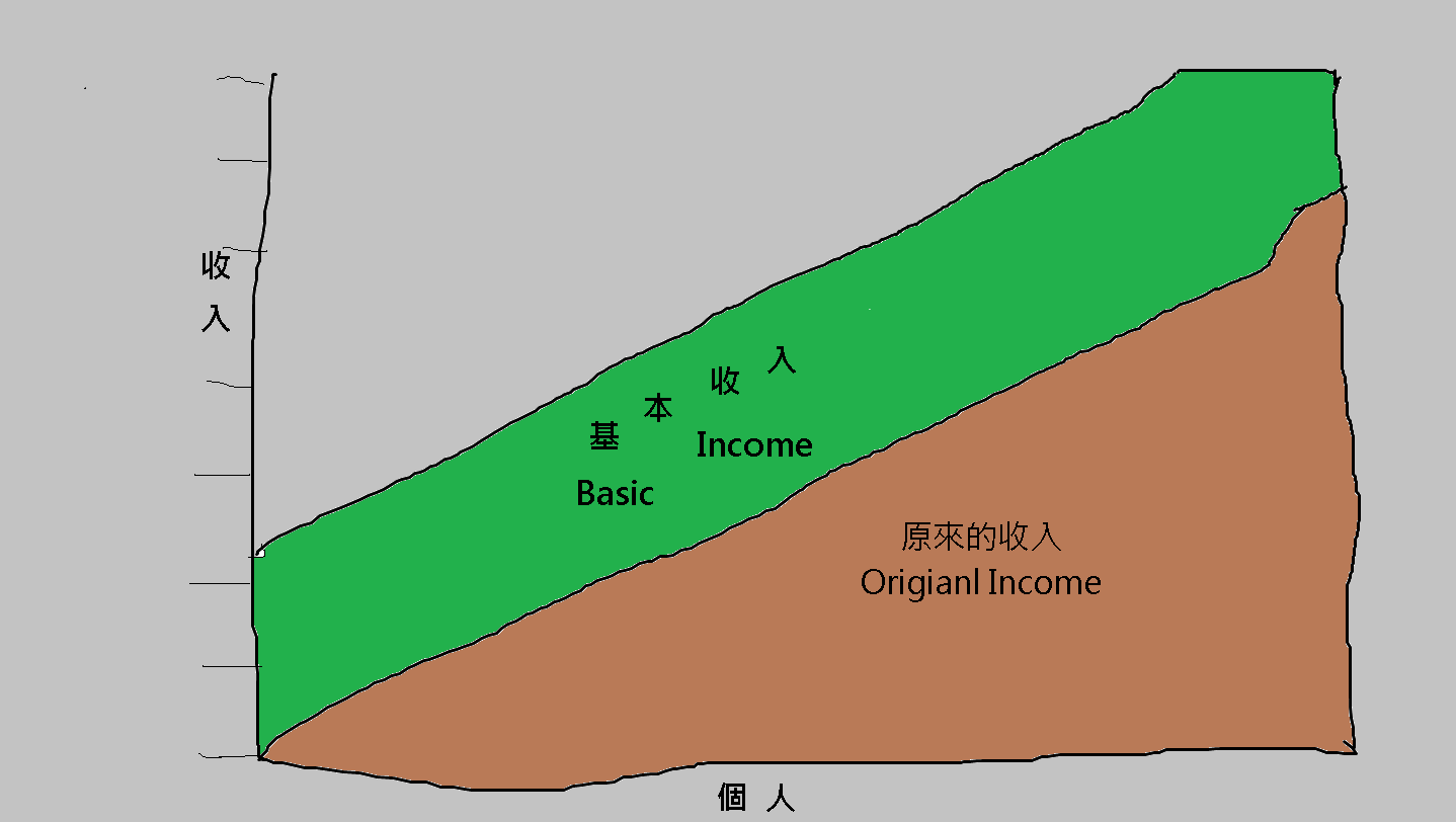 Income distribution with basic income. Brown-Original Income Green-Basic Income Income showed as vertical axis (no considering with taxation) 中文（台灣）: 擁有基本收入的收入分布圖。 綜－原來的收入 綠－基本收入 收入以縱軸表示 （不考慮稅負）